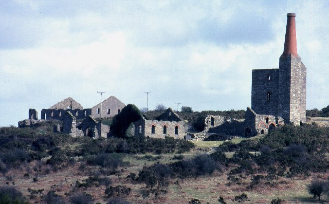 Disused copper mine buildings near Minions. View of the Phoenix United copper mine engine house, sheds and stack. Photographed in 1979 from the hillside above the site, looking east.